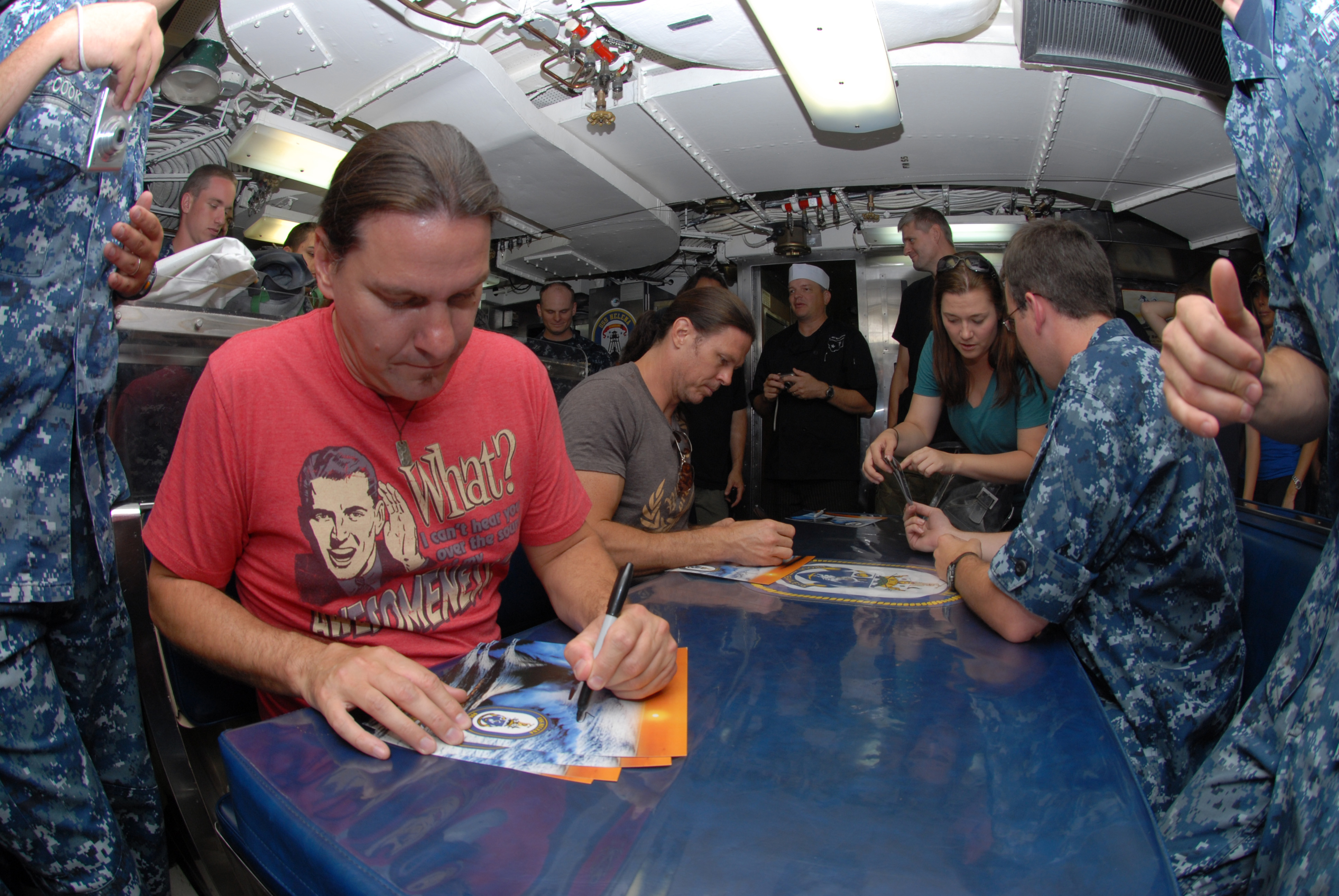 NORFOLK (Aug. 1, 2011) Shawn Drover and Chris Broderick, former members of the band Megadeth, sign autographs in the crew mess aboard the Los Angeles-class attack submarine USS Helena (SSN 725). Members from the band made a brief stop to visit the submarine at Naval Station Norfolk before their concert in Virginia Beach, Va., Aug. 2. (U.S. Navy photo by Mass Communication Specialist 1st Class Todd A. Schaffer/Released) 110801-N-NK458-063